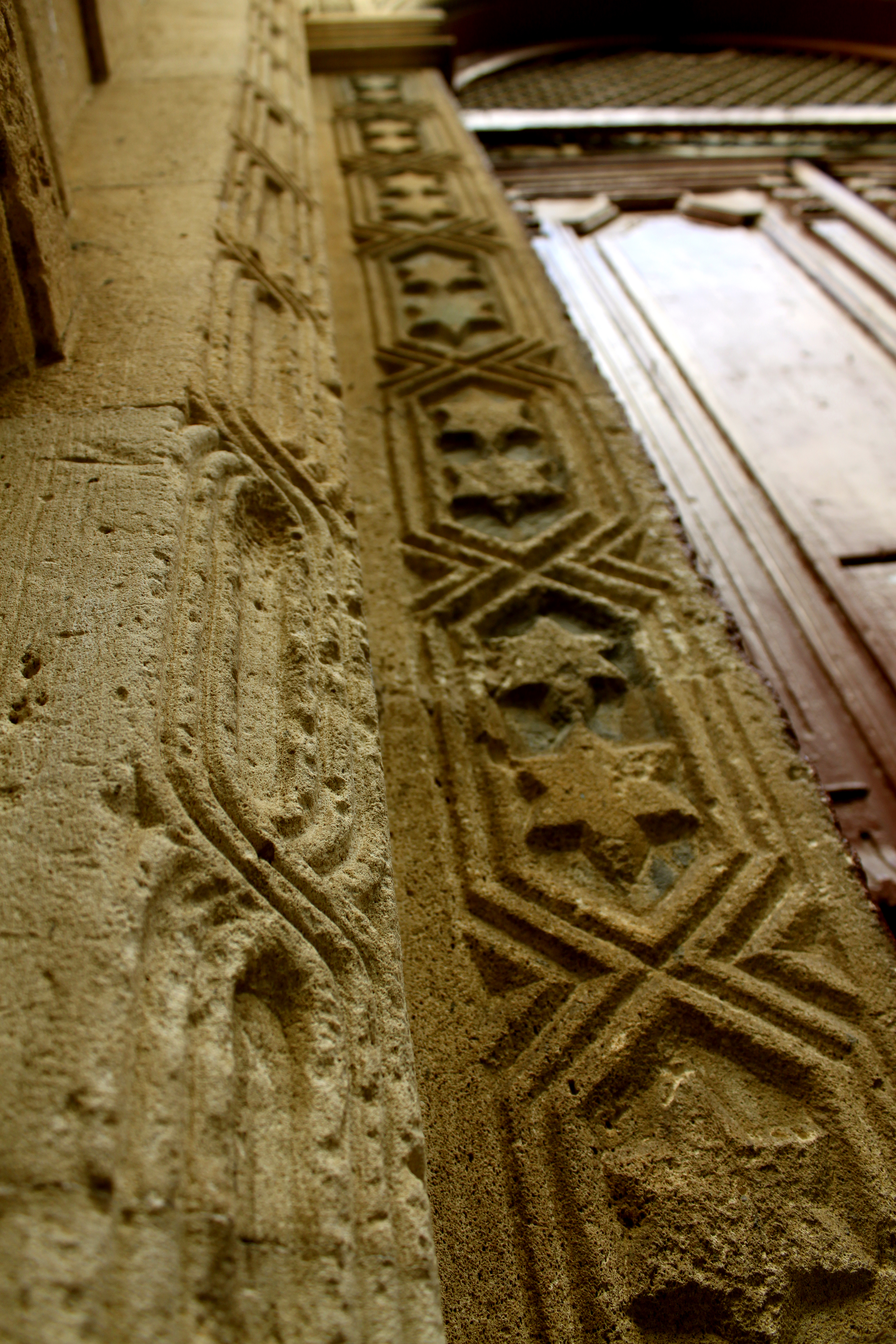 Faşade detail of Beglar mosque